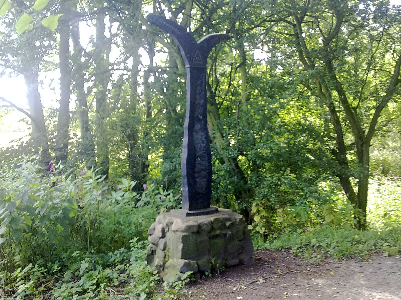 UK National Cycle Network Milepost ref MP5 just north of York